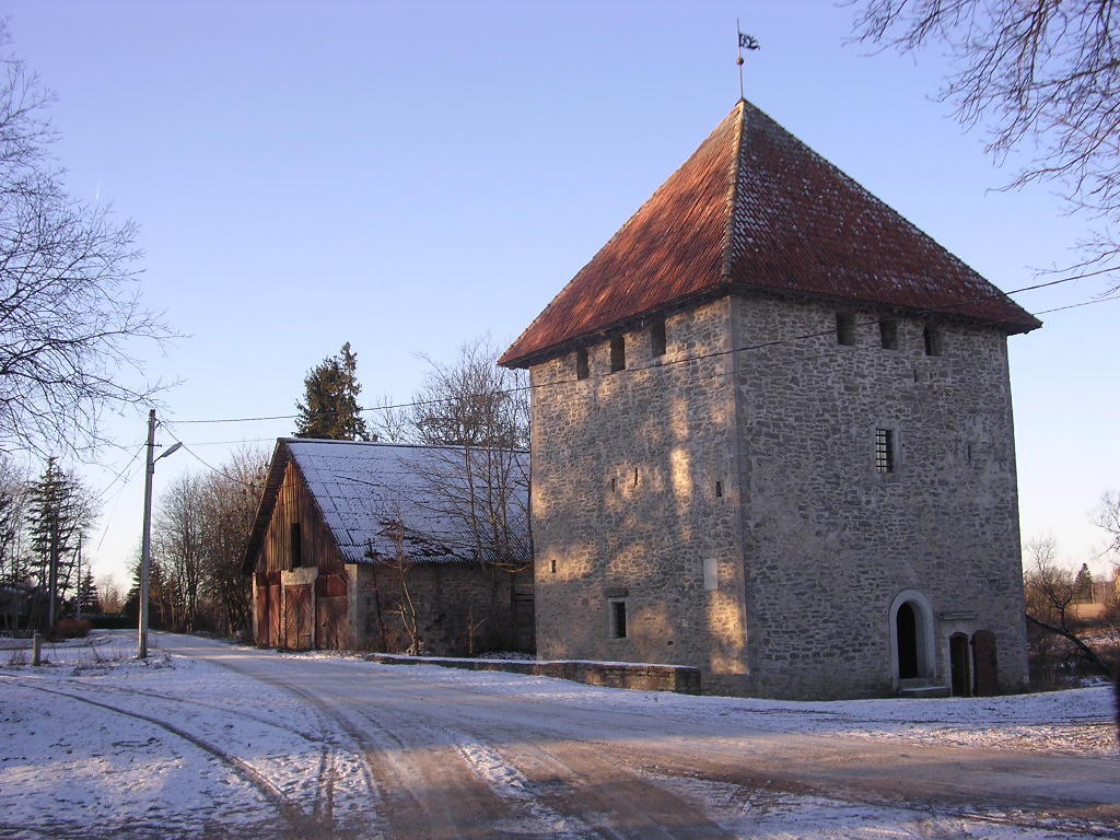 Defence tower museum in Vao